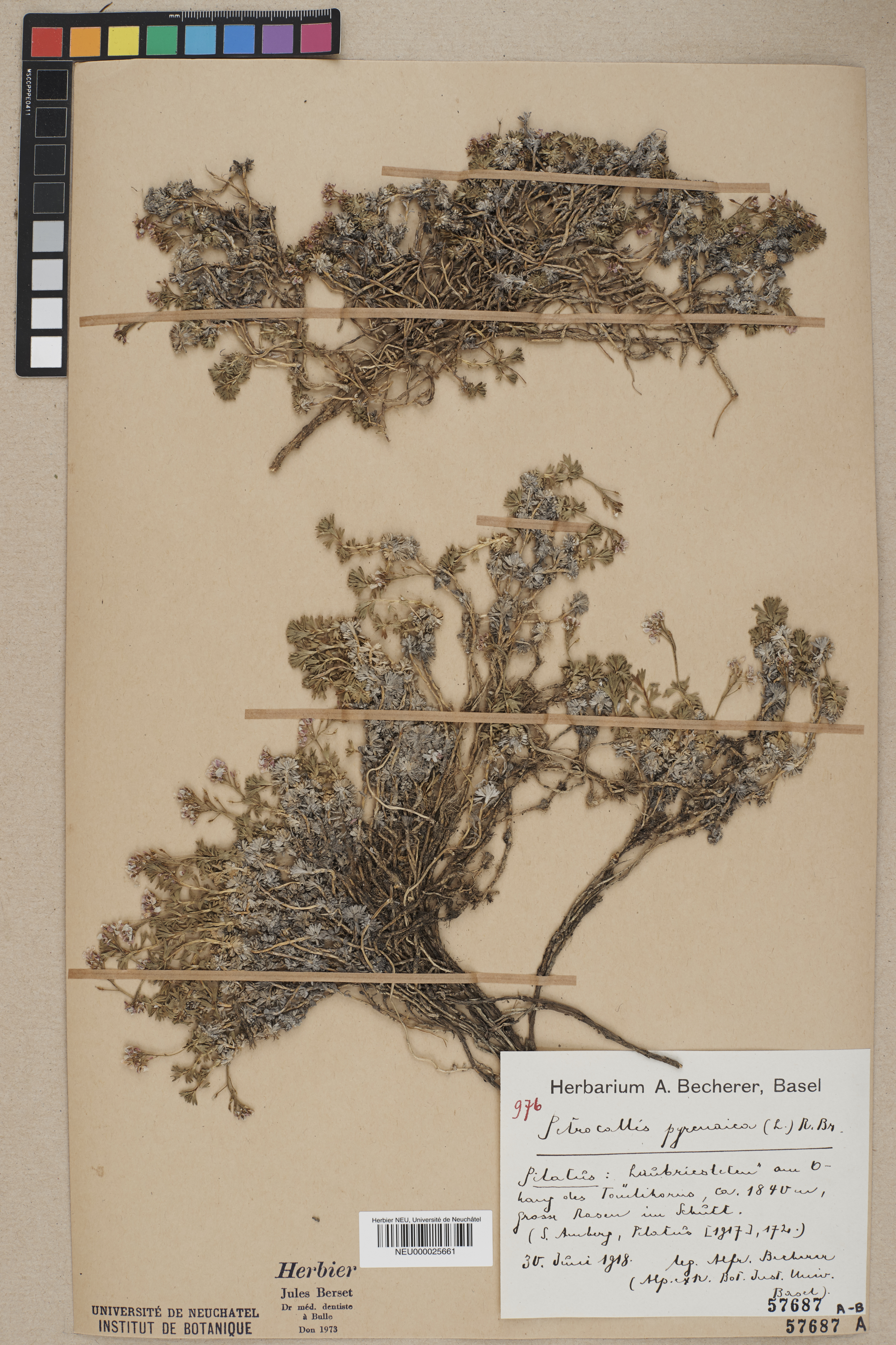 Dried pressed specimen of Petrocallis pyrenaica